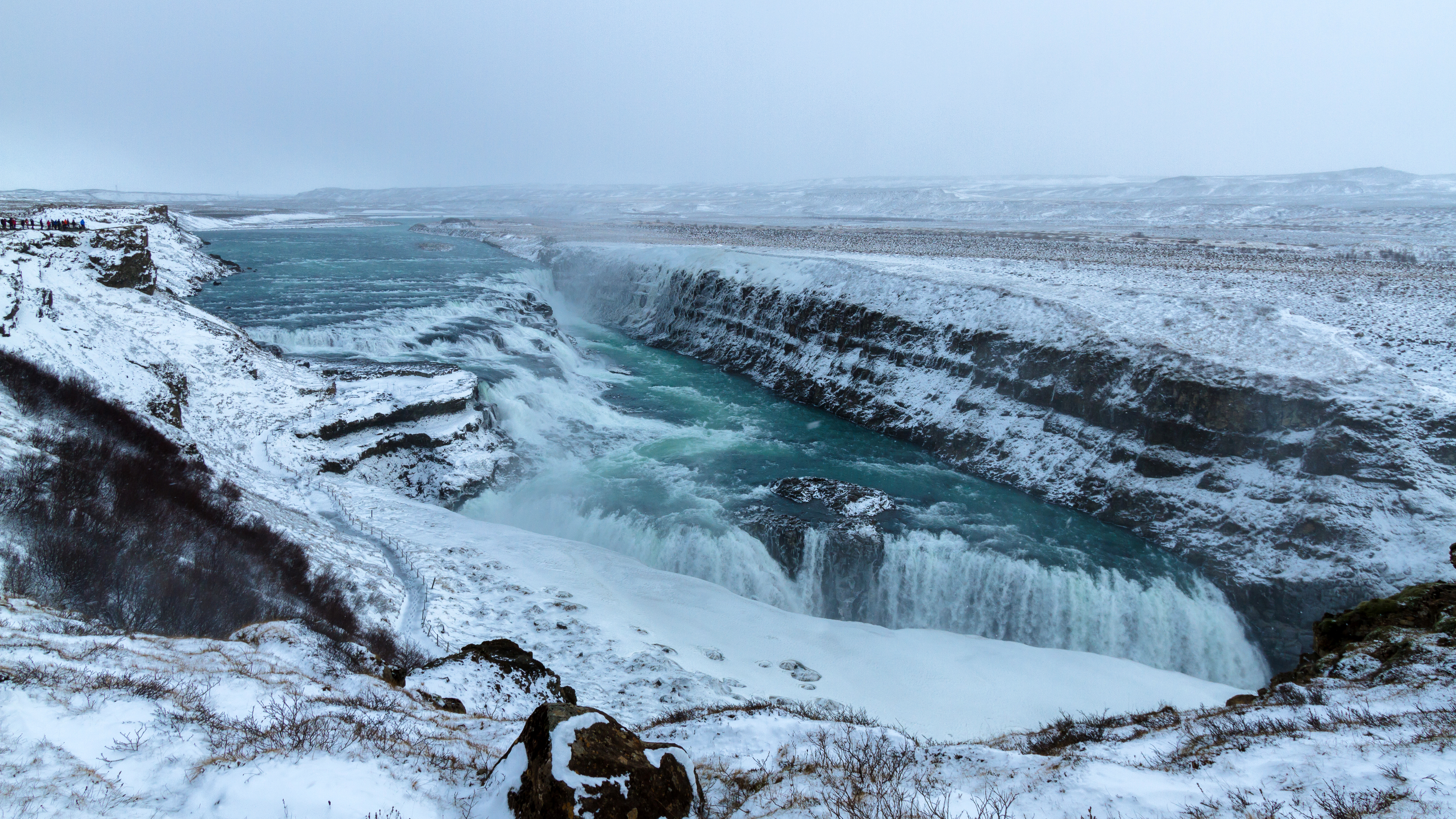 Waterfalls of Gullfoss under the snow in Iceland